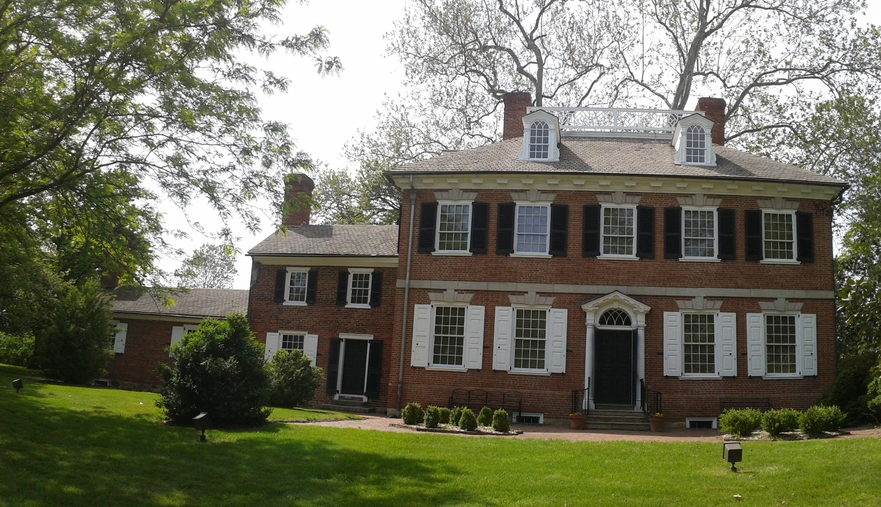 Stitched-together view of the Corbit-Sharp House in Odessa, Delaware in May, 2016